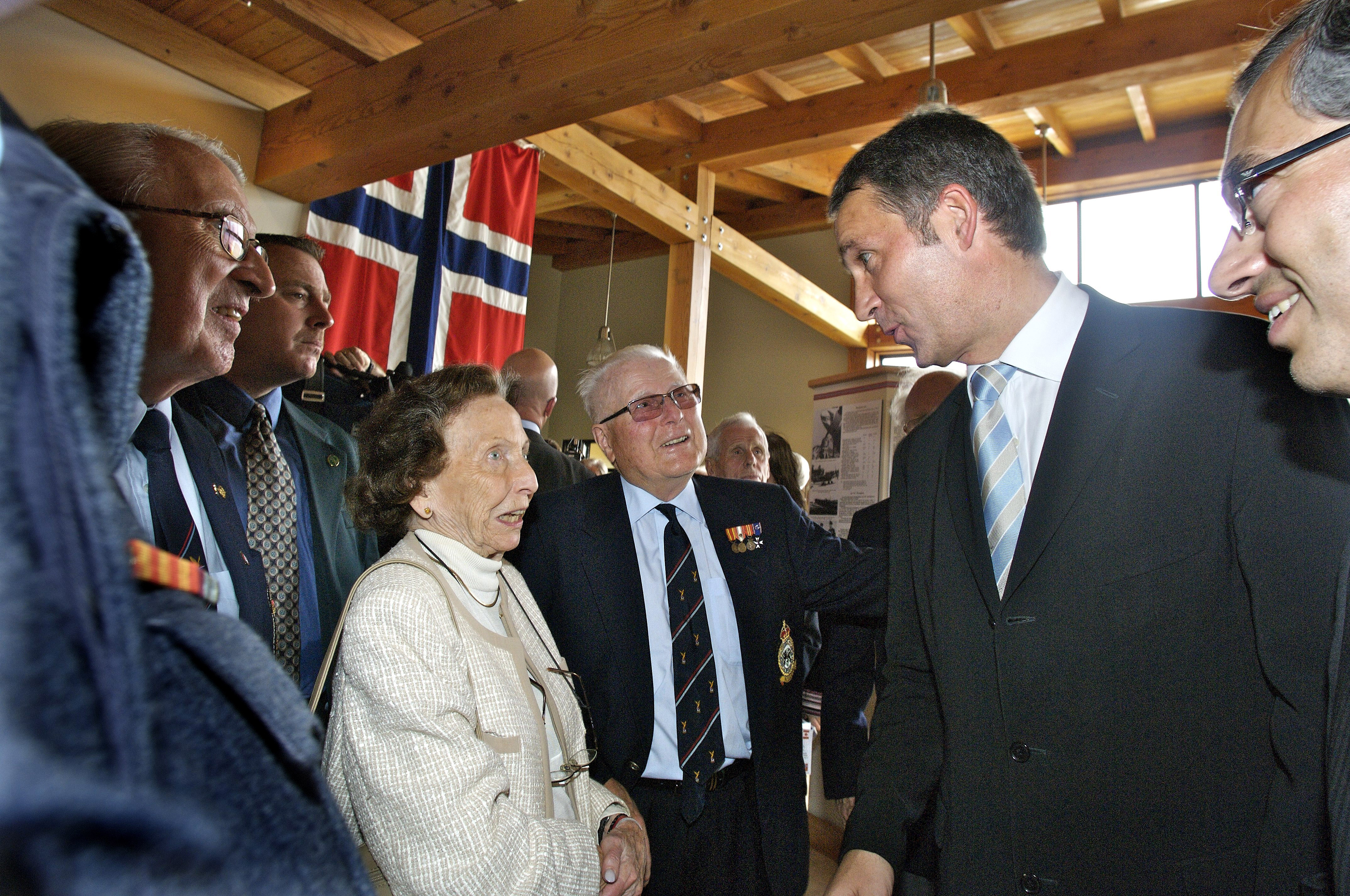 WWII pilot Per Waaler and his wife Ruth meet prime minister Jens Stoltenberg in Vesle Skagum in Canada in 2007Norsk bokmål: Tidligere jager- og bombeflypilot Per Waaler og hans kone Ruth møter statsminister Jens Stoltenberg i Vesle Skagum i Kanada i 2007